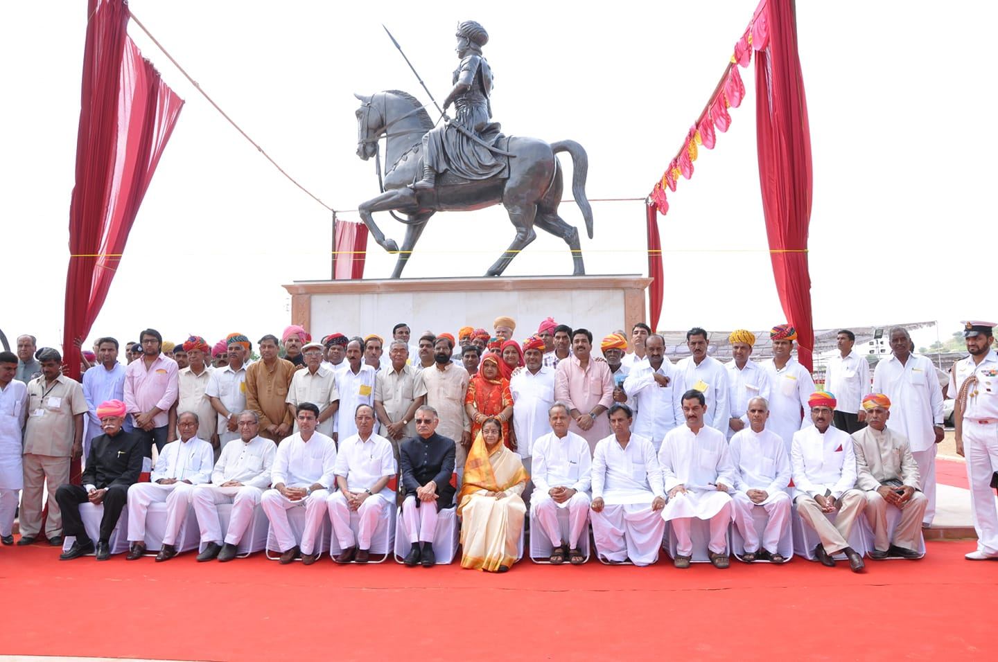 Innorgration of maharao shekha statue by President of india Pratibha devi singh patil